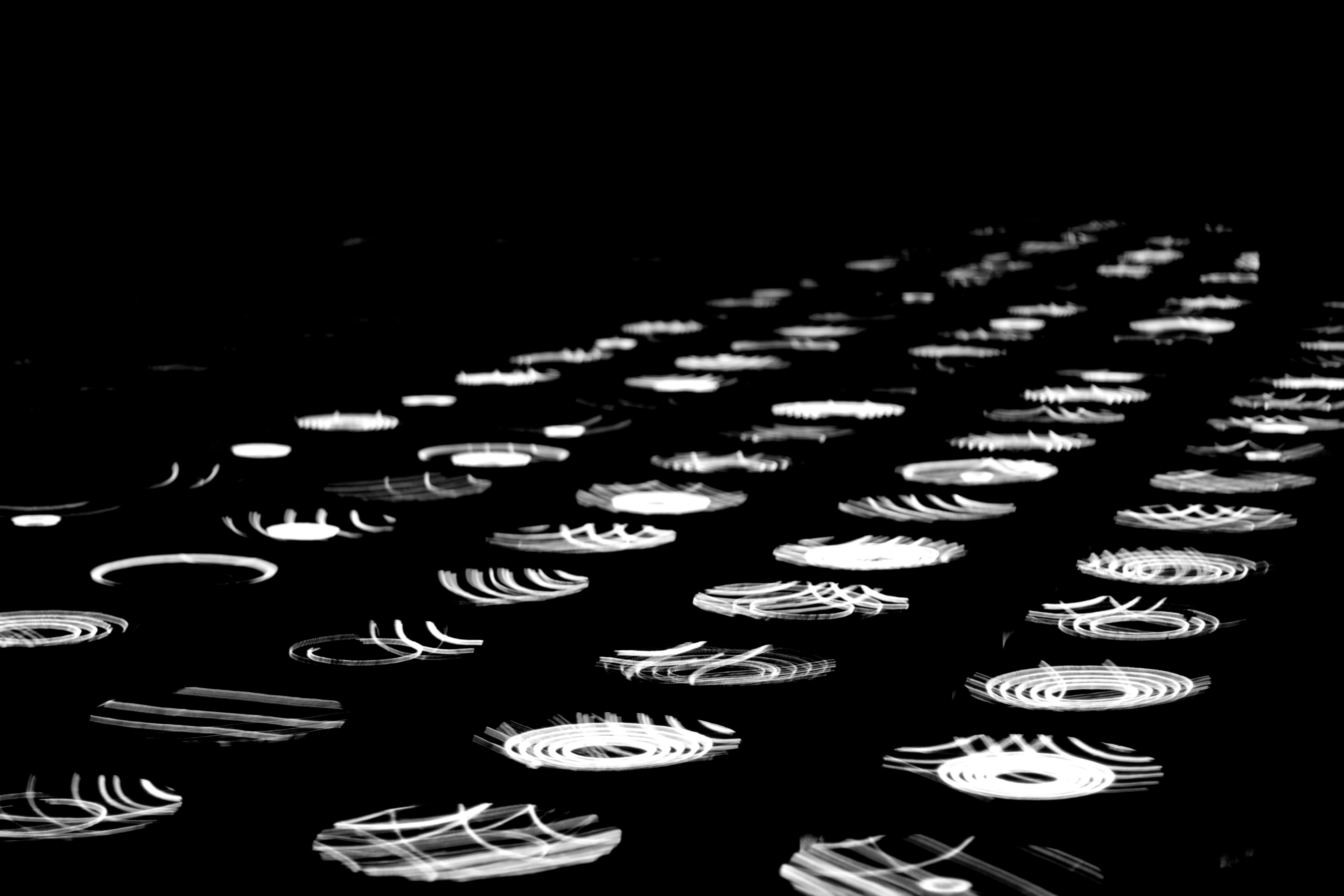 Expo 2015, South Korea Pavilion, Milan, Italy.